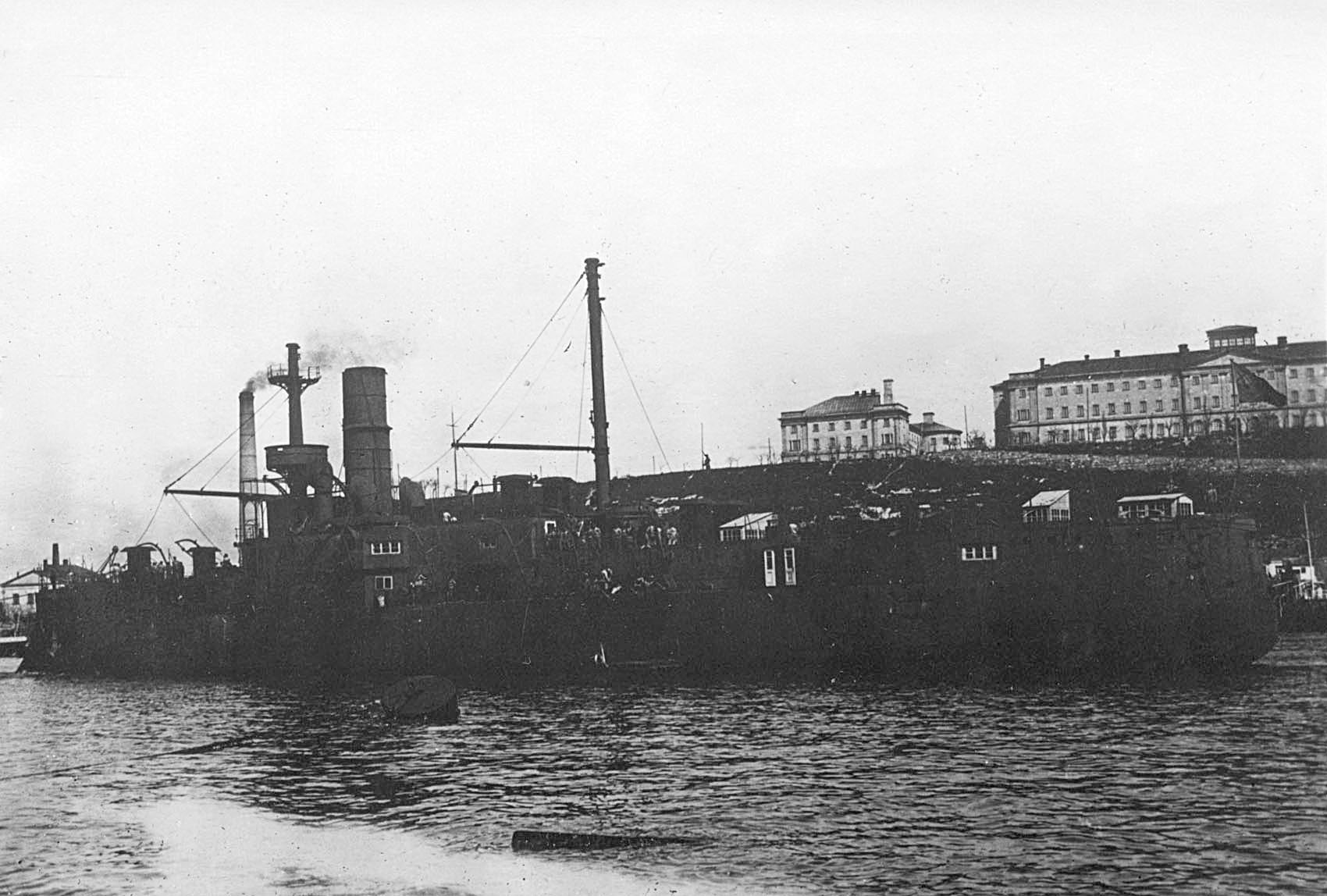 The Imperial Russian Blockship No.8, former battleship Dvenadtsat' Apostolov, in Sevastopol, 1920s.